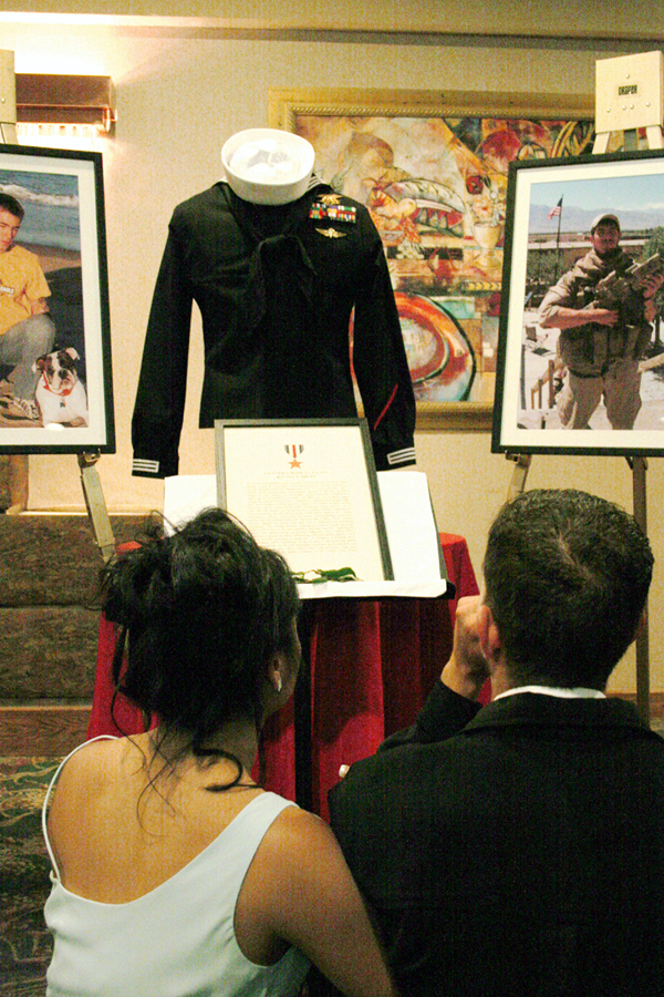 Eric Dietz is brought to his knees as he looks at the uniform of his brother Petty Officer 2nd Class Danny Dietz. Danny Dietz, a Navy SEAL, recieved a silver star for his actions with Naval Speical Warfare Task Unit in Afghanistan June 2005. Dietz was one of the fallen servicemembers honored at "Remembering the Brave" July 22 at the Radisson Hotel in Aurora, Colo.